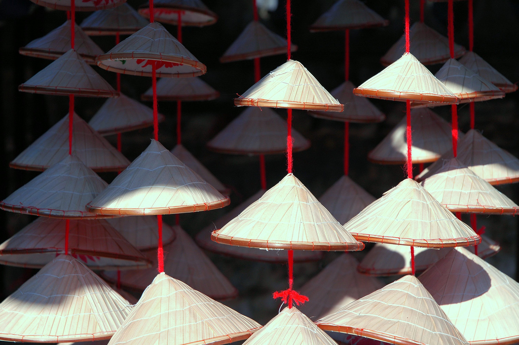 Small straw conic hats.